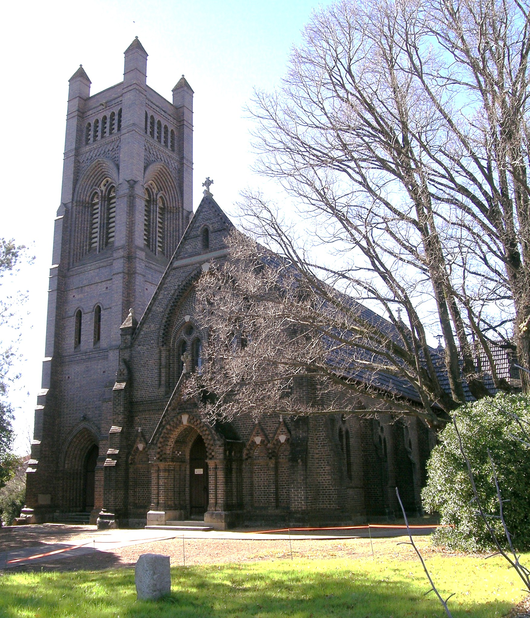 St Peters Cathedral, Armidale. Designed by Canadian born John Horbury HUNT (1838-1904. The main part dates from 1875.